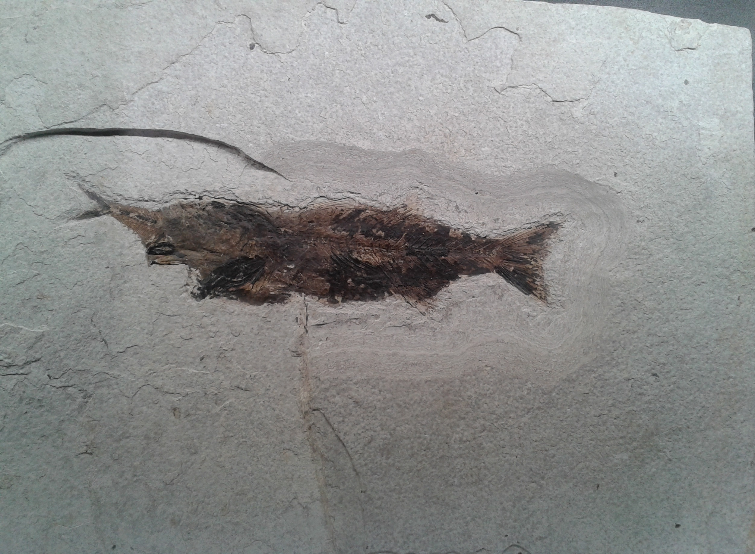 A specimen of Mioplosus that died and was fossilised after failing to swallow its prey (another fish, tail protruding from Mioplosus's mouth on the left side of the picture).